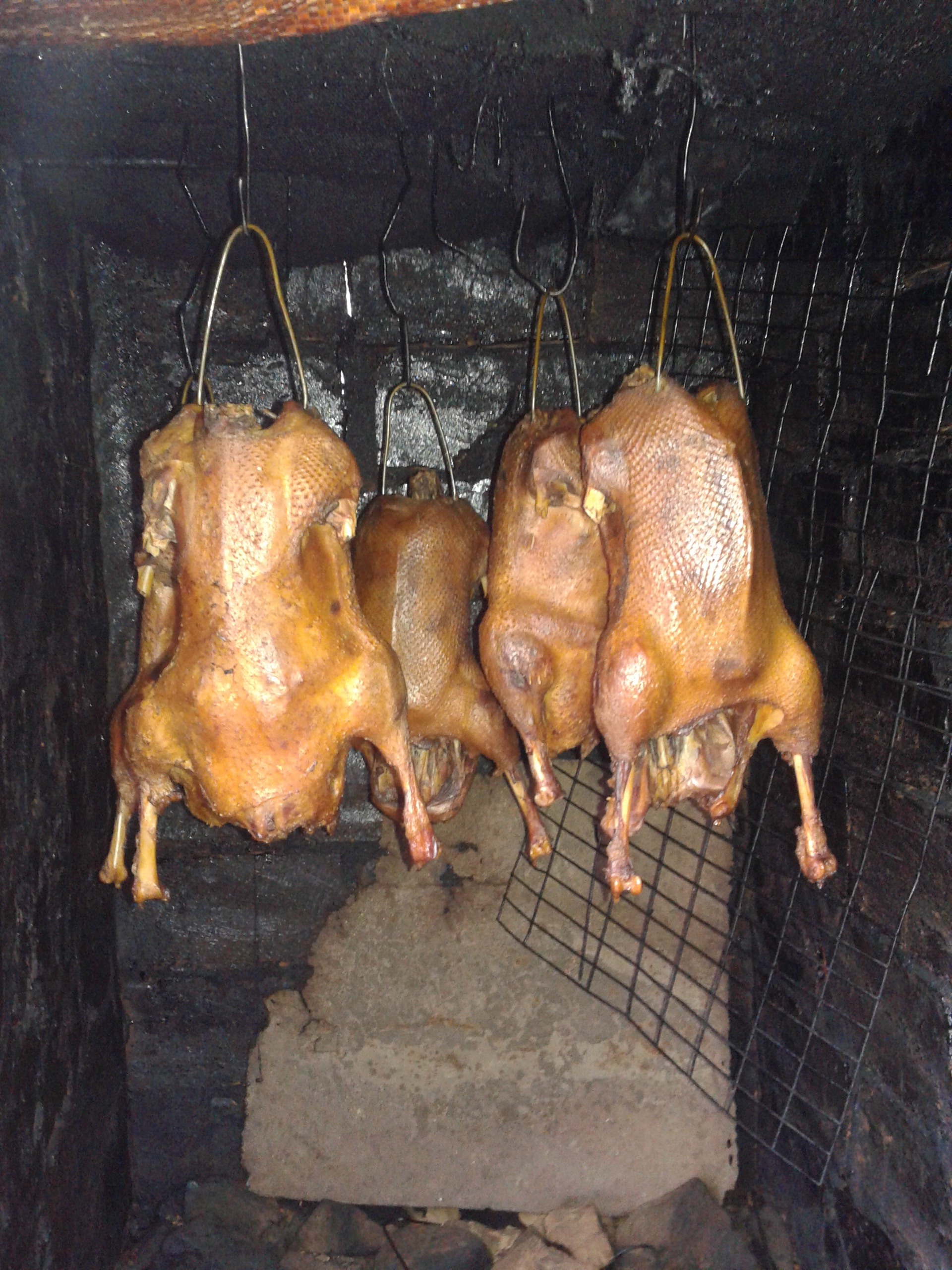 smoking of geese in a home smokehouse